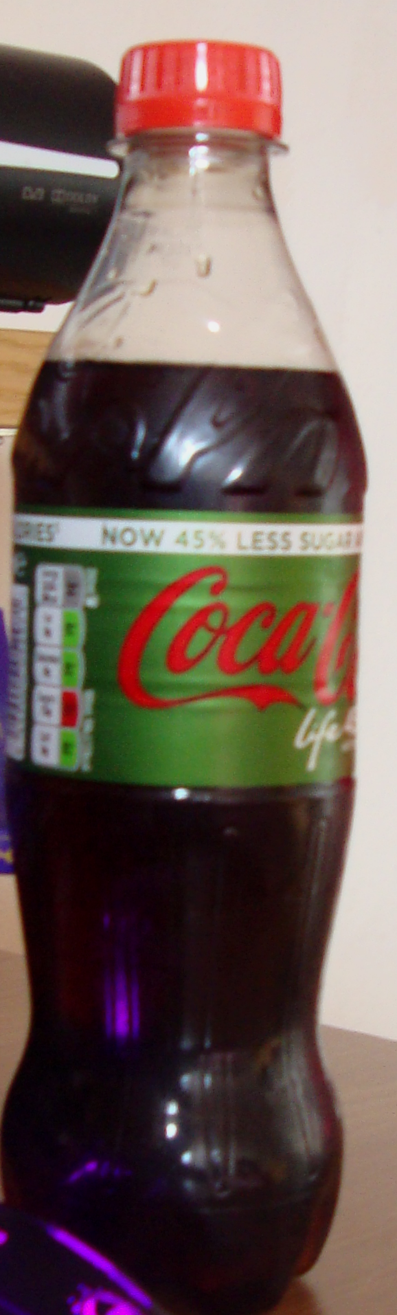 A photograph of a 500ml bottle of the soda Coca Cola Life.